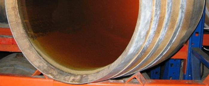 Barrel of fermenting Vin jaune with a cutaway view showing its characteristic yeast film covering called voile, similar to Sherry's "flor", at Fruitiere vinicole d'Arbois